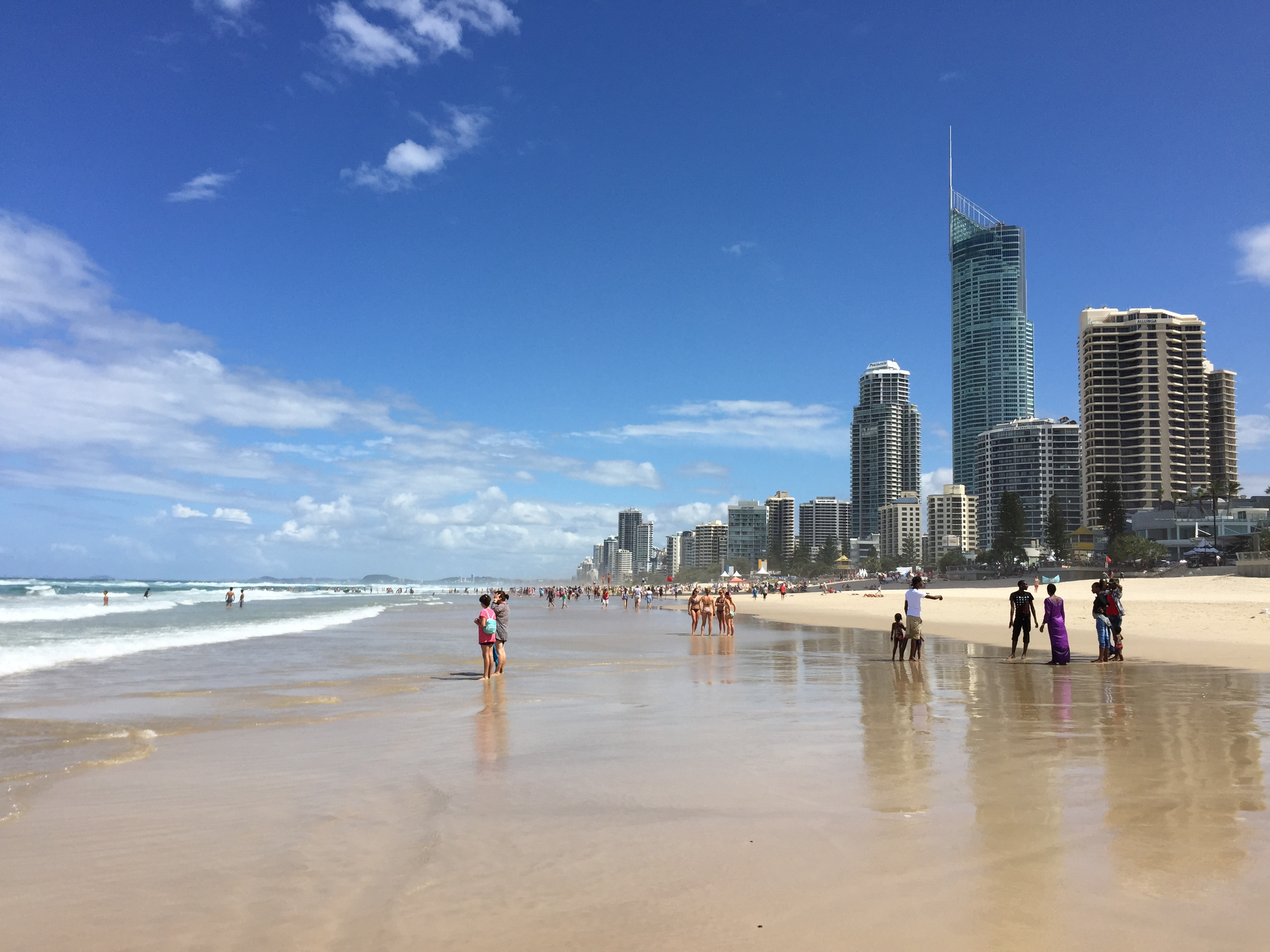 A beach at Surfers Paradise, Queensland